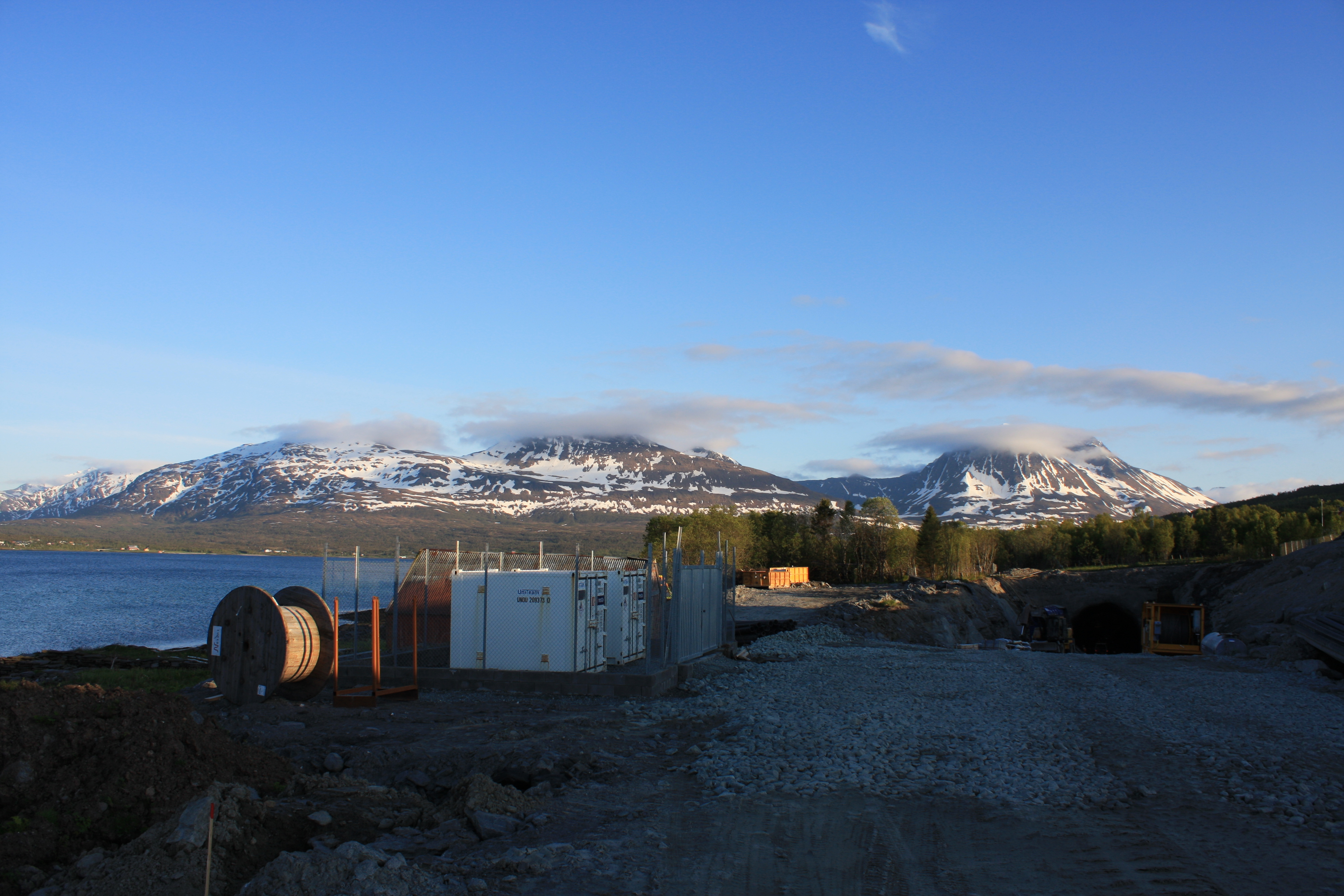 The construction site of the undersea tunnel (Ryaforbindelsen) with the peninsula Malangshalvøya in the background.